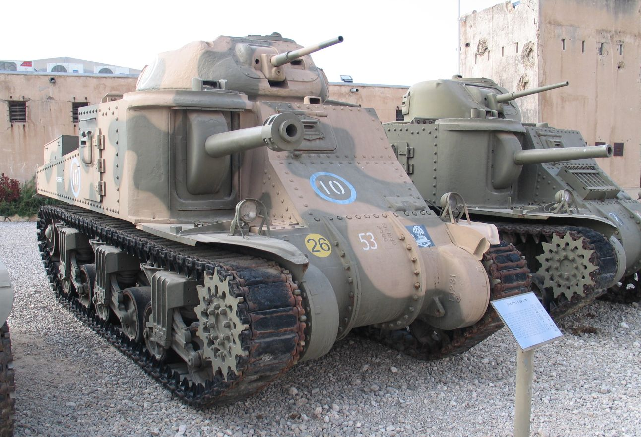 Description: M3 Grant medium tank in Yad la-Shiryon Museum, Israel. 2005. Source: Photo by me, User:Bukvoed.